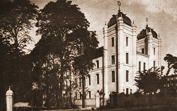 Reform synagogue in Gniezno (Poland) circa 1920. Built in 1846, destroyed in 1940 by German Nazi invaders. Photograph from Museum of the Polish State Origins in Gniezno's collection. Published: S. Pasiciel, Gniezno. Widoki miasta 1505-1939, Warszawa-Poznań, 1989 (publisher: Państwowe Wydawnictwo Naukowe; ISBN 83-01-08544-4)